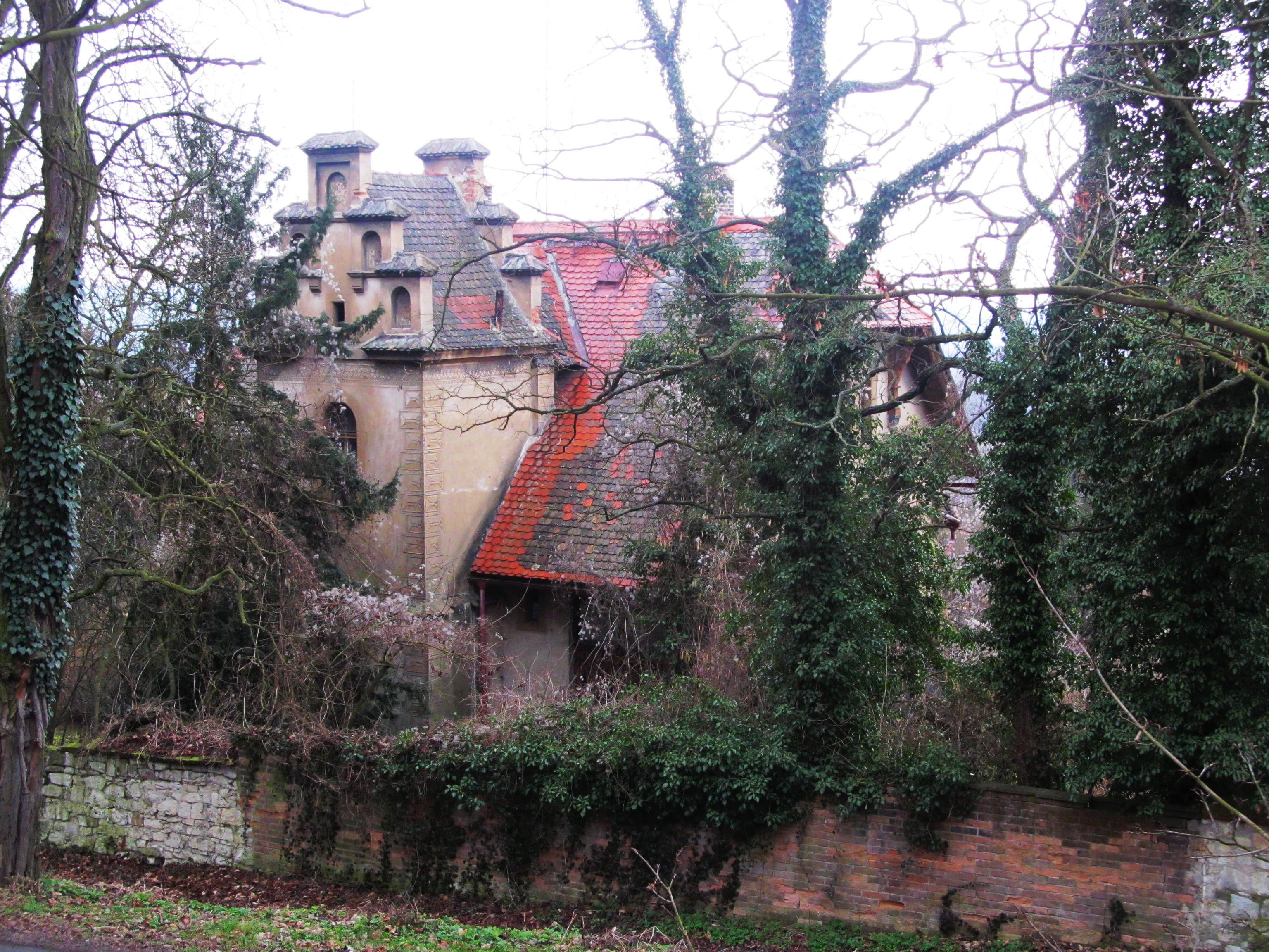 Villa of the architekt Antonín Wiehl in Smolnice